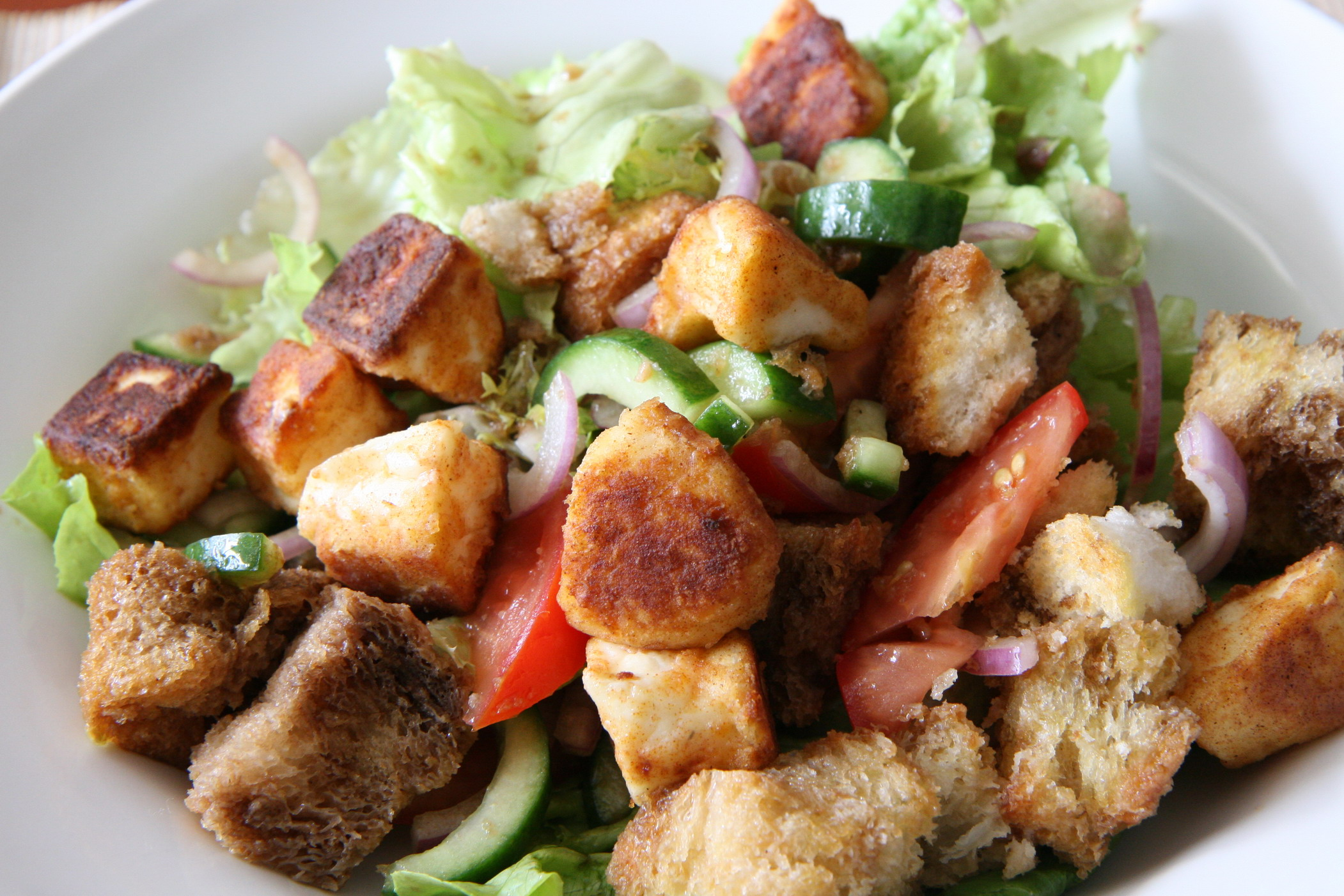 Italian salad: Panzanella (bread, salad, tomatoes) with extra fried haloumi.